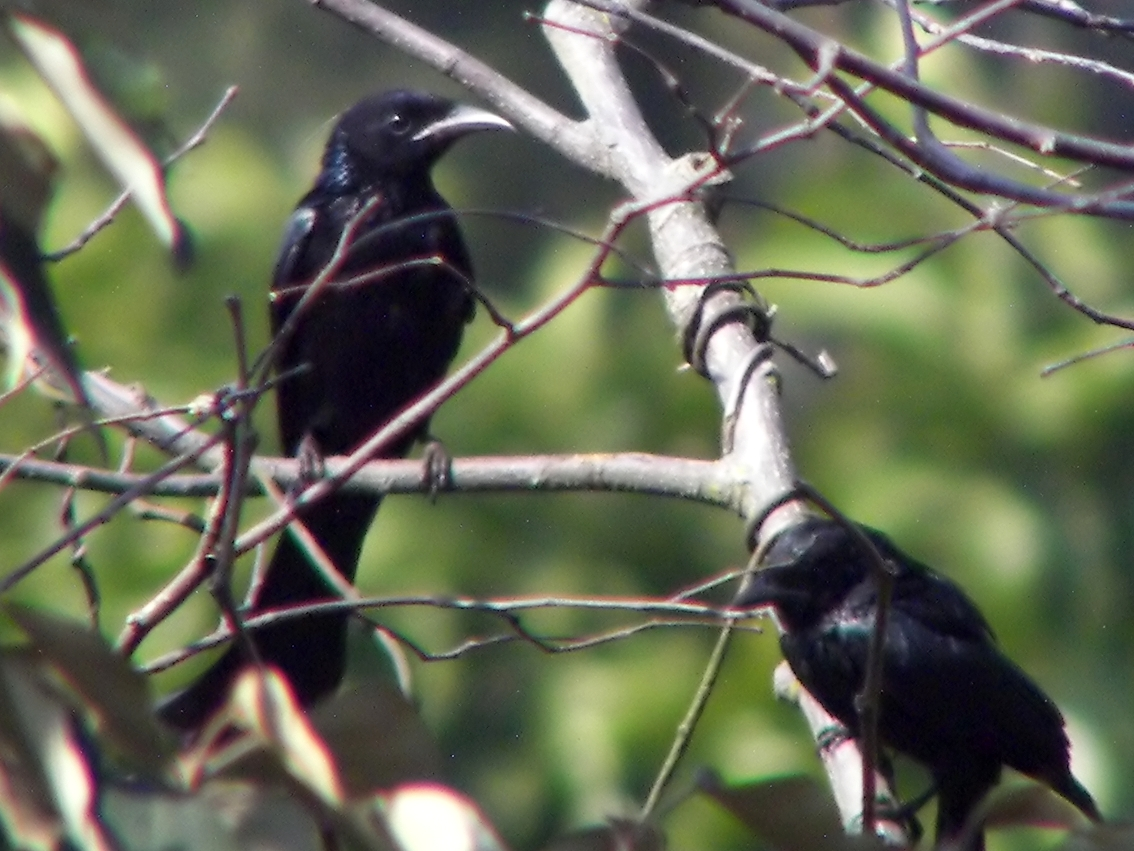 Hair-crested Drongo (Dicrurus hottentottus), Sha Tin, New Territories, Hong Kong